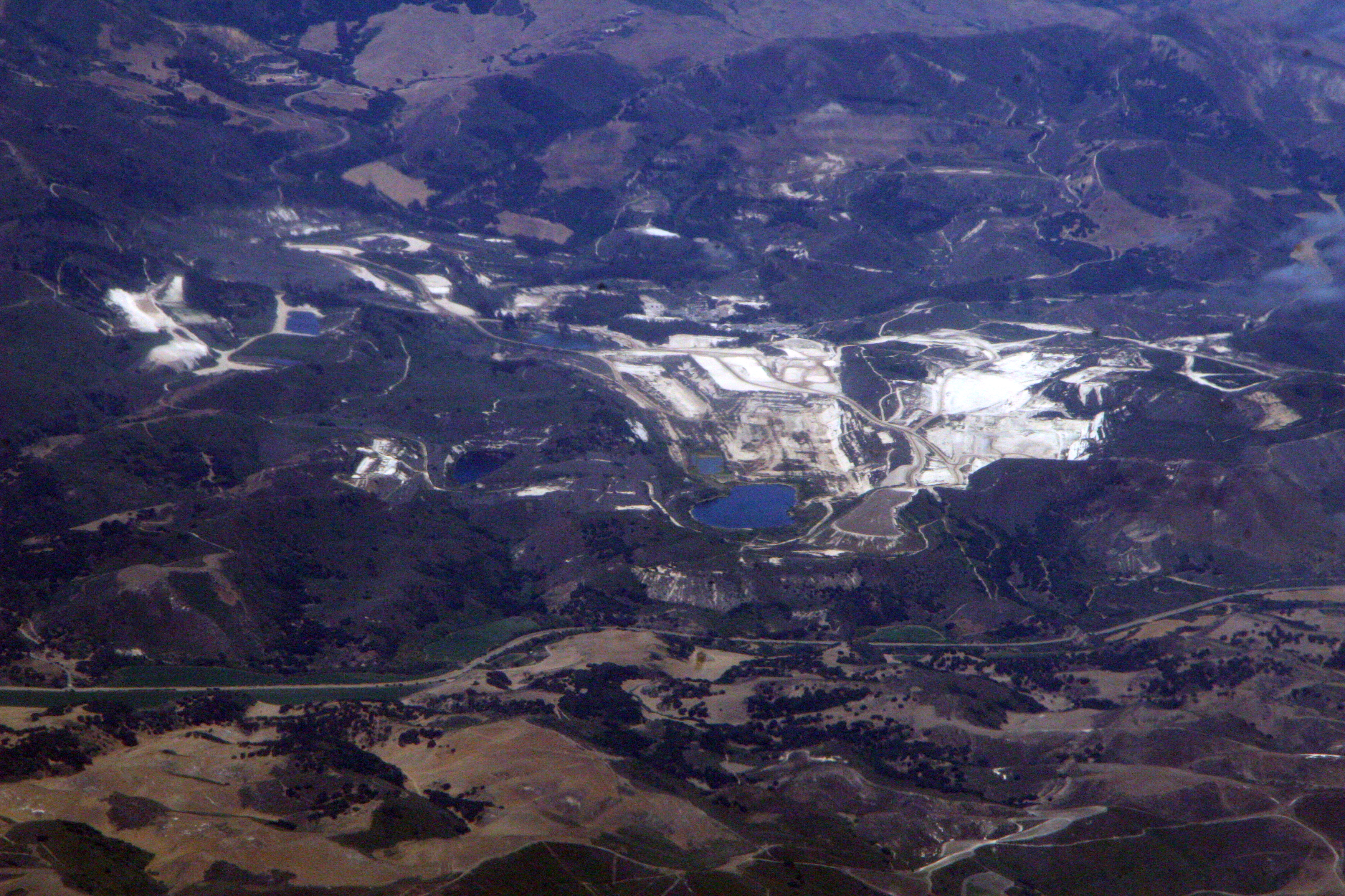 Diatomaceous Earth mines, south of Lompoq.